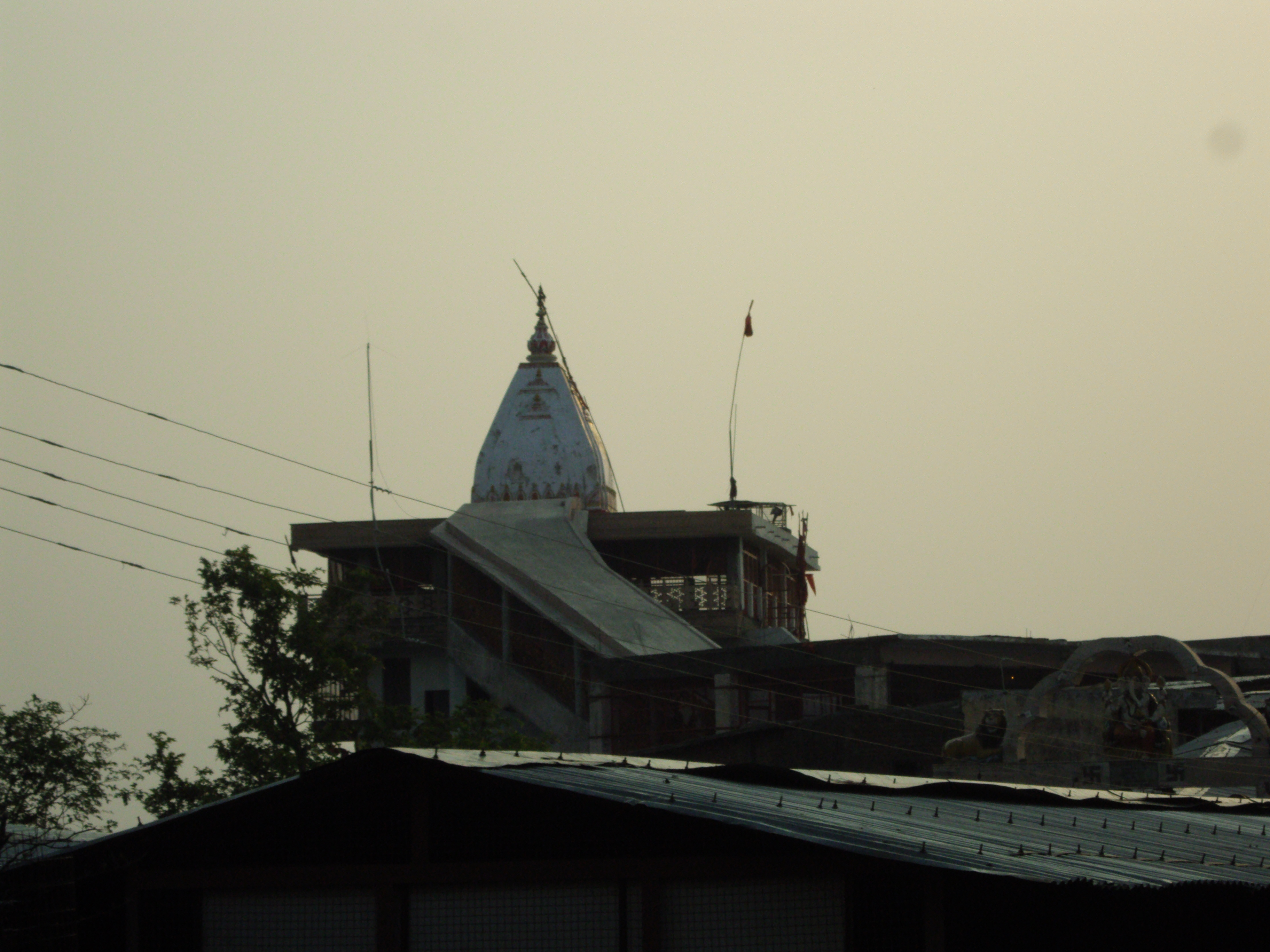 Chandi Devi Mandir,Haridwar